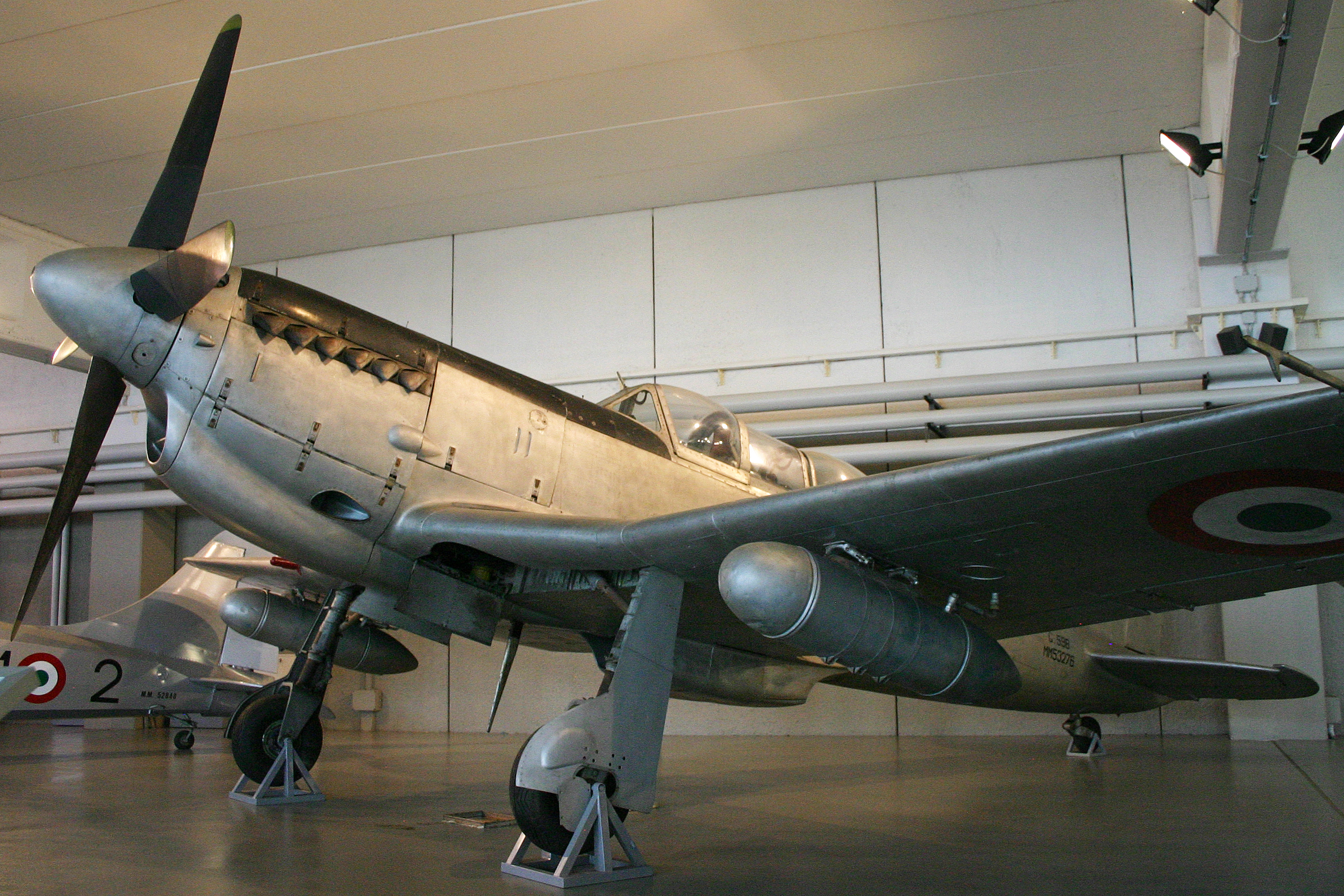 Displayed under the balcony in Hangar SKEMA. msn 61